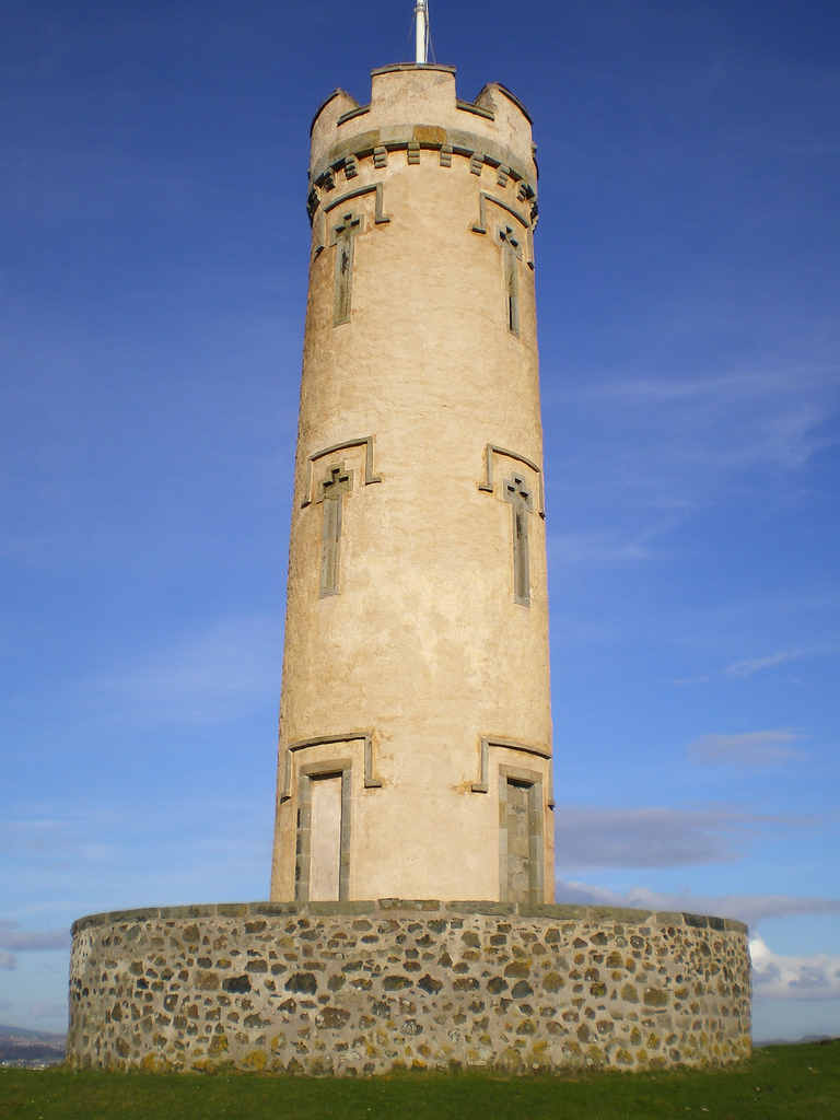 Binns Tower, House of the Binns, West Lothian, Scotland